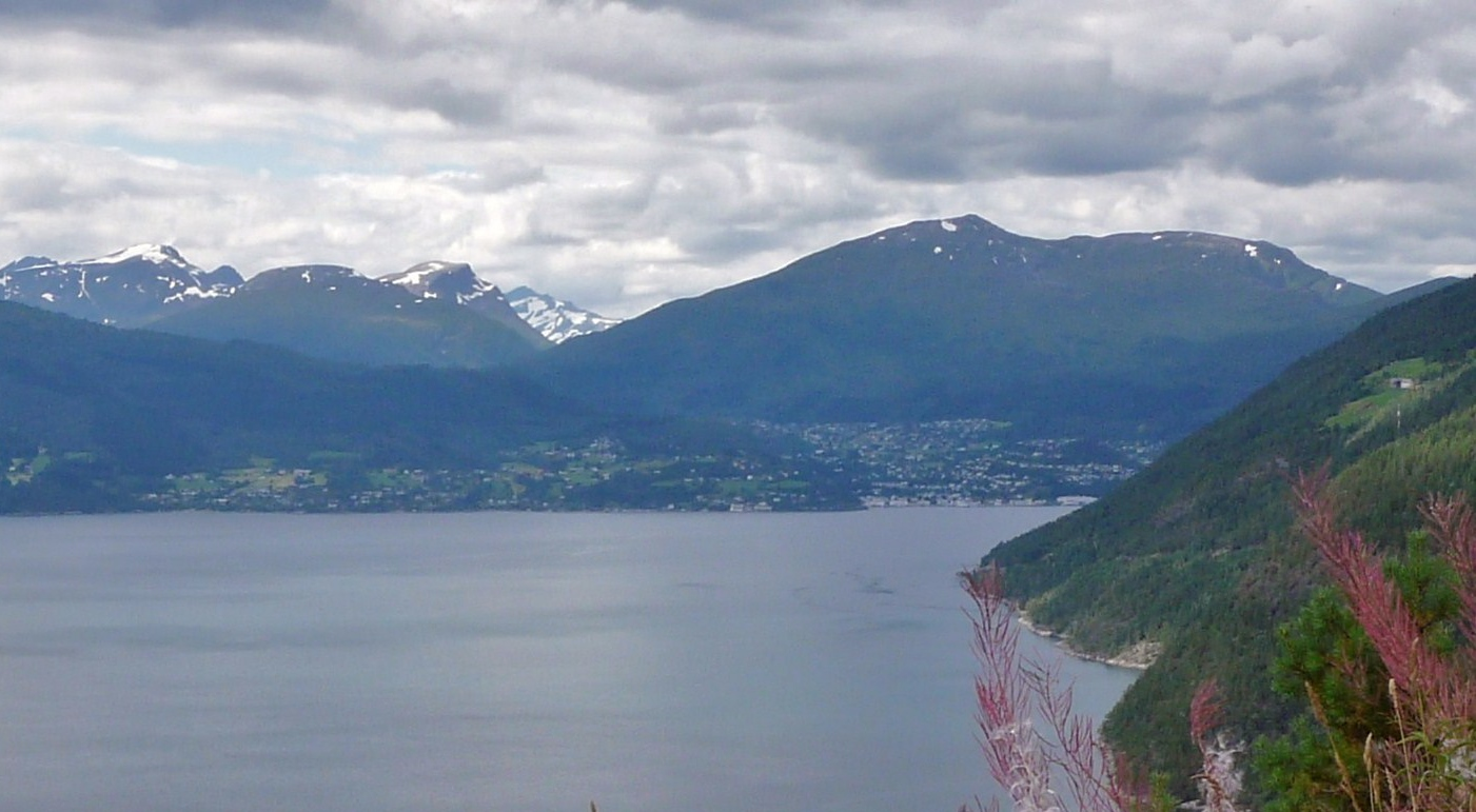 A view to Storfjorden to the south and west as seen from Riksvei 650 near Liabygda in 2008 August (cropped)